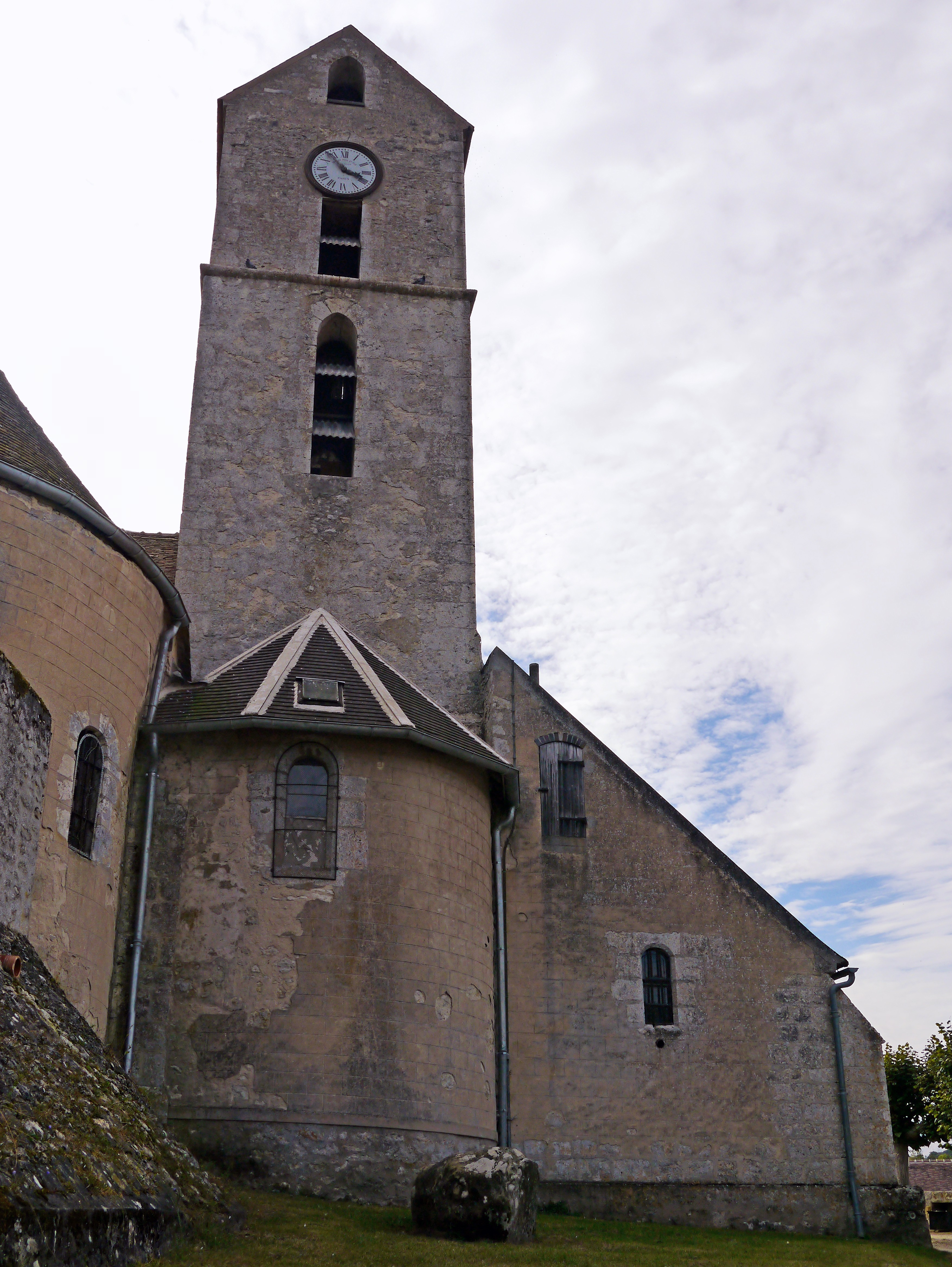 Buno-Bonnevaux, Essonne, France. Polissoir des Sept coups d'épée, next to the church.